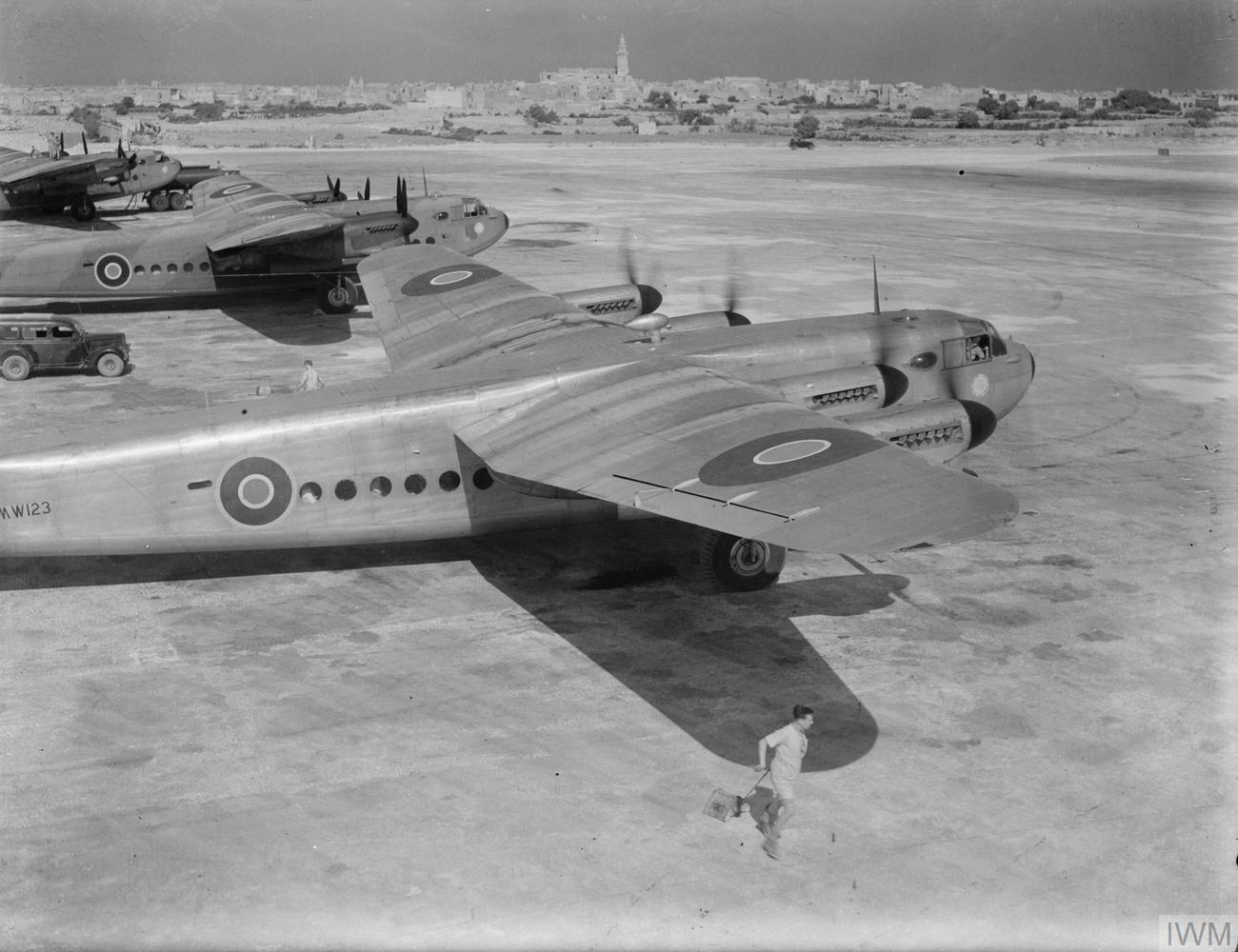 Avro York C Mark Is of No. 47 Group RAF lined up at Luqa, Malta, while staging through to the Far East. In the foreground, MW123 of No. 511 Squadron RAF starts to taxy out.